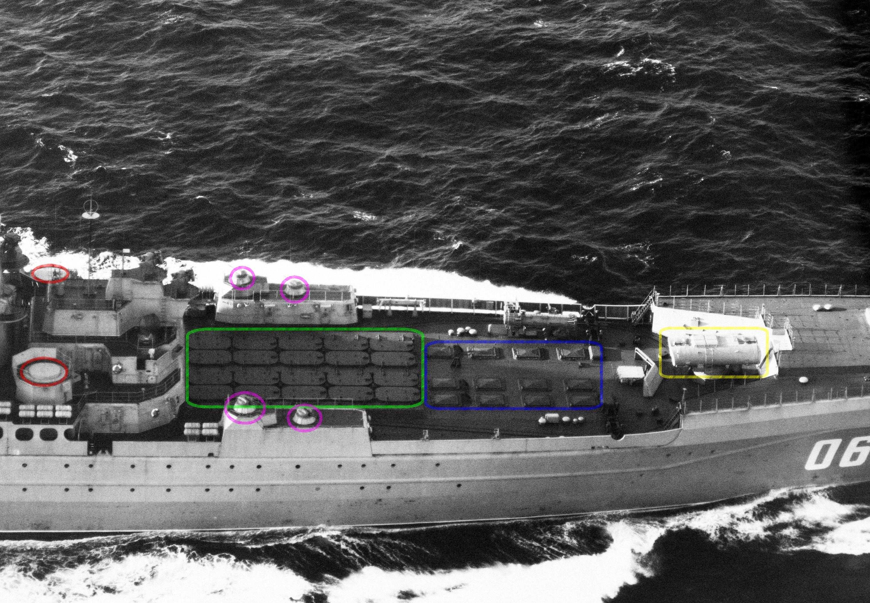 Aerial starboard view of the foredeck of the Soviet nuclear-powered guided missile cruiser KIROV. 4 single 30 mm gatling guns 2 pop-up (lowered) SA-N-4 surface-to-air missile (SAM) launchers 20 SS-N-19 cruise missile launchers 12 SA-N-6 surface-to-air missile (SAM) launchers 1 twin SS-N-14 antisubmarine warfare/surface-to-surface missile launcher